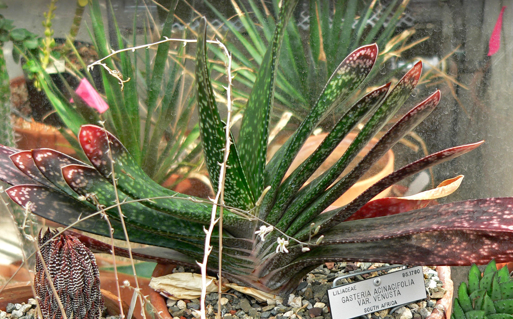 Gasteria acinacifolia var. venusta at the University of California Botanical Garden, Berkeley, California